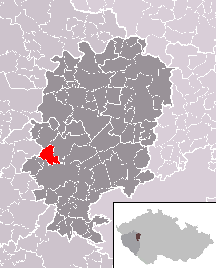 Location of Litohlavy municipality within Rokycany District and within identical administrative area of Rokycany as a Municipality with Extended Competence.